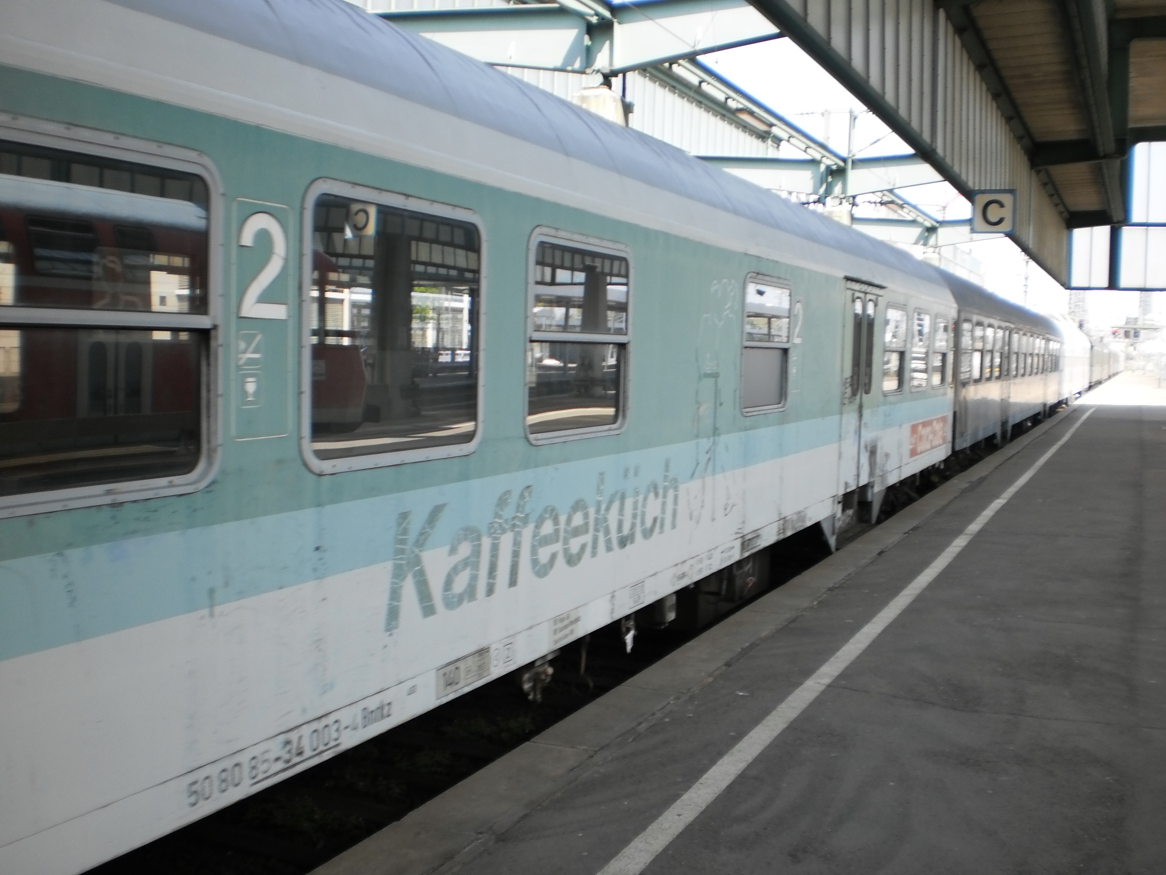 Kaffeeküch wagon in Stuttgart main station